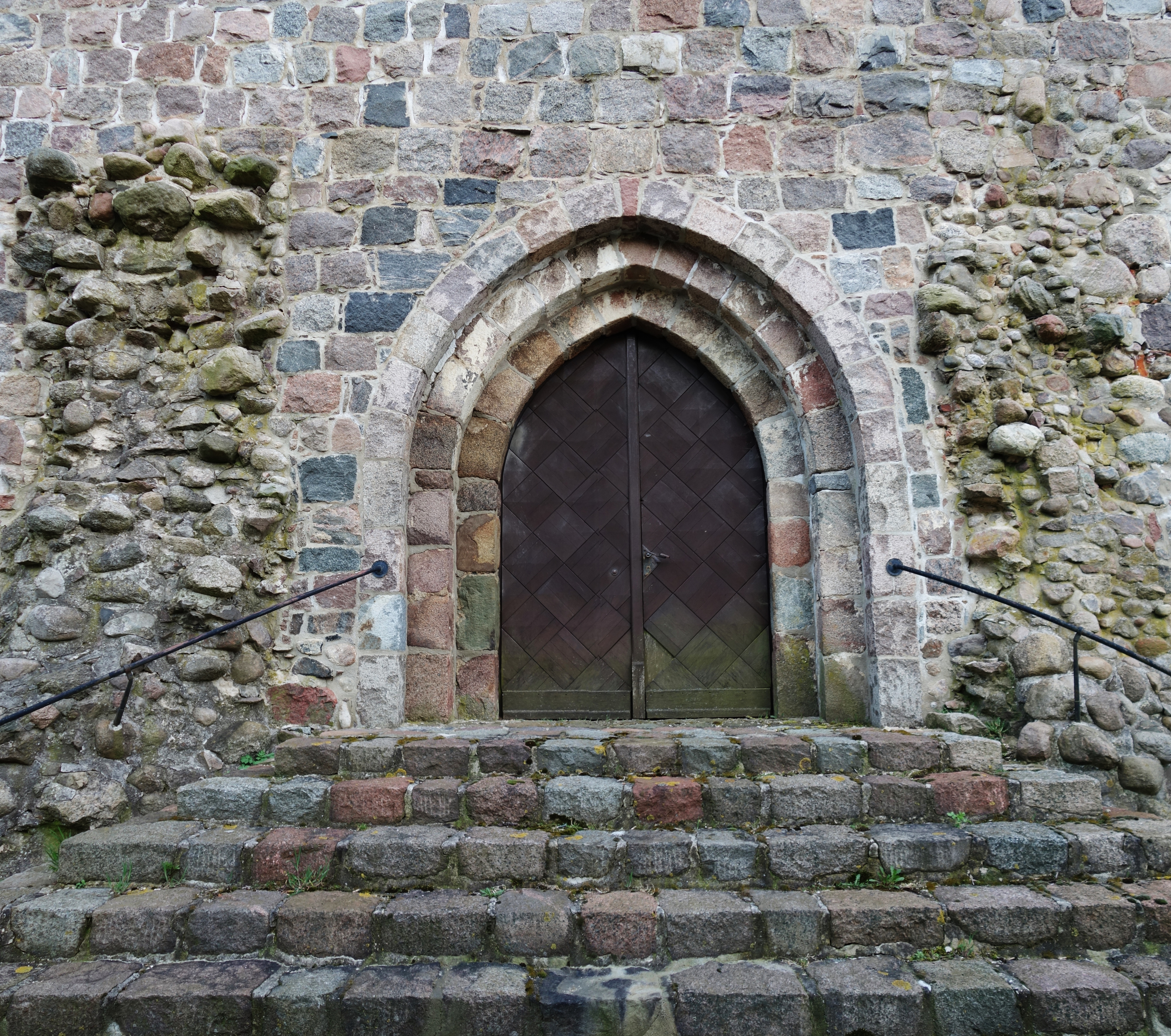 Western portal of church in Hetzdorf, Uckerland municipality, Uckermark district, Brandenburg state, Germany